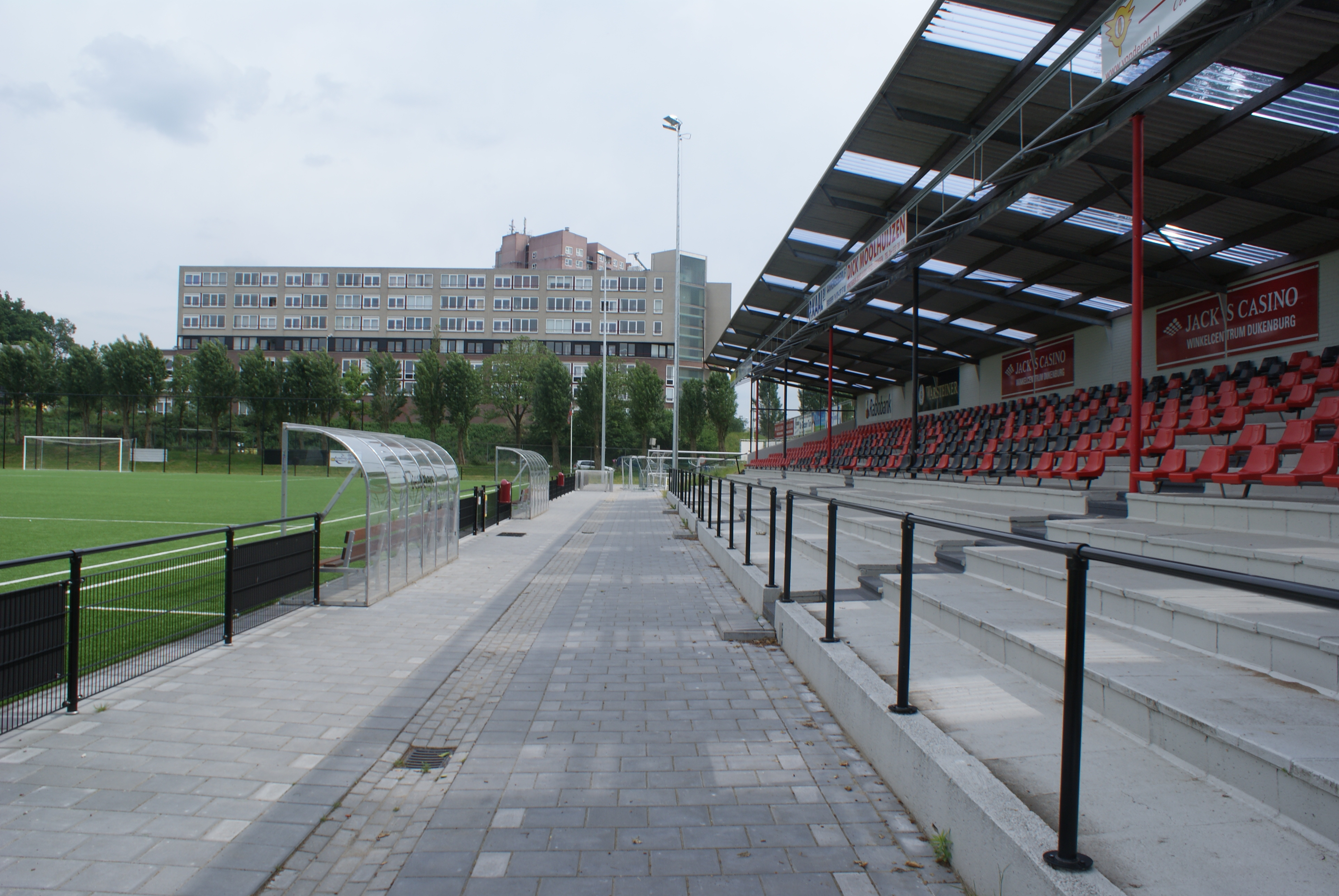 Stadion De Dennen Quick 1888